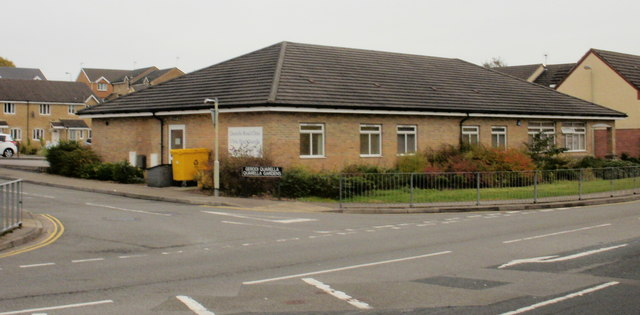 Quarella Road Clinic, Bridgend On the corner of Quarella Road and Quarella Gardens (Gerddi Quarella).